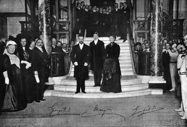 Visit of Their Majesties, King George V, Queen Mary, and Edward Prince of Wales after the rebuilding of The Polytechnic, 1912.